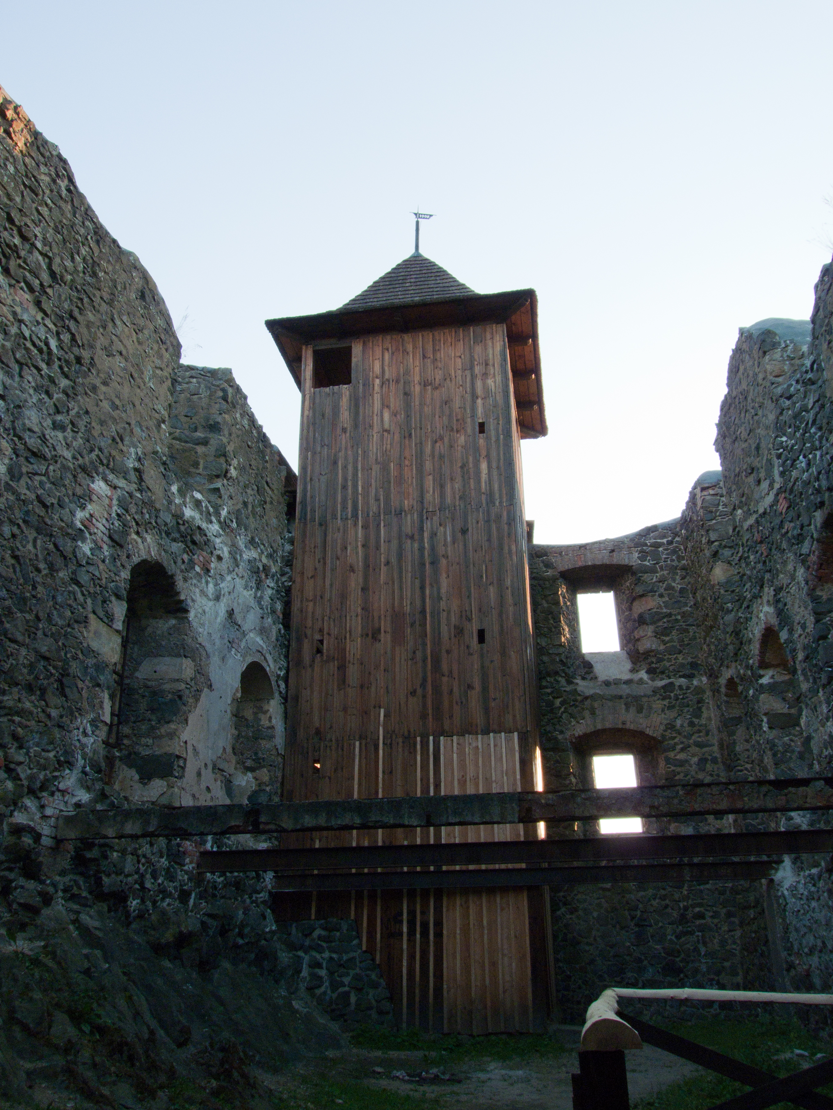 Kamenický castle observation tower on Castle Hill near the town of Česká Kamenice, Ústí nad Labem Region, Czech Republic